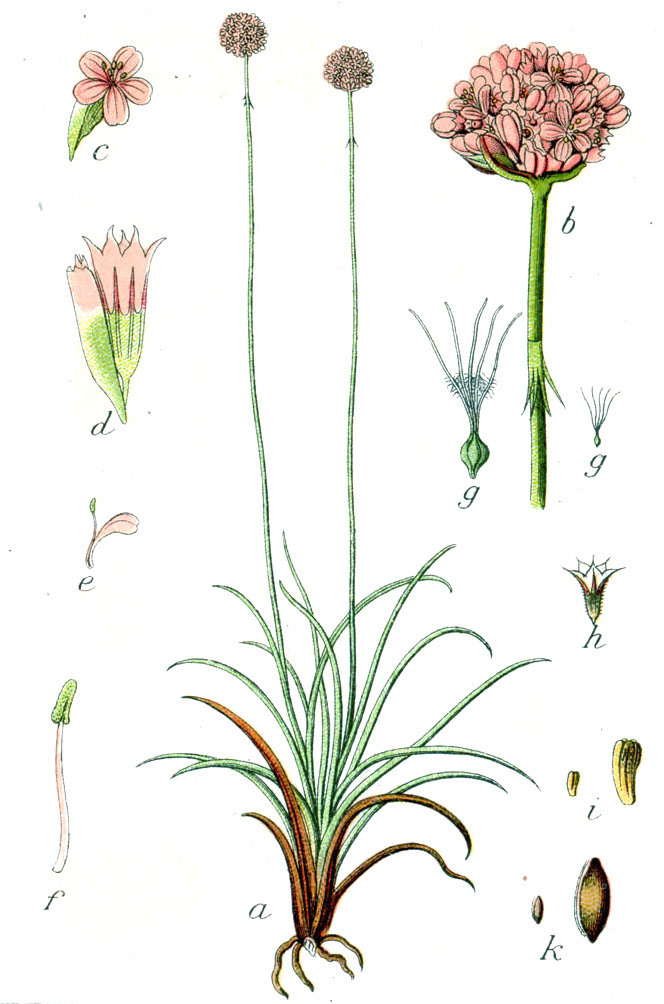 Armeria maritima (Mill.) Willd. s. l., syn. Statice armeria L. Original Caption Hohe Grasnelke, Statice armeria elongata